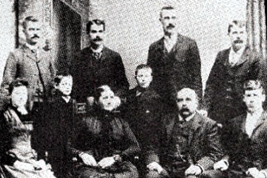 The Parrott Family of Portland, Oregon. All members unidentified.